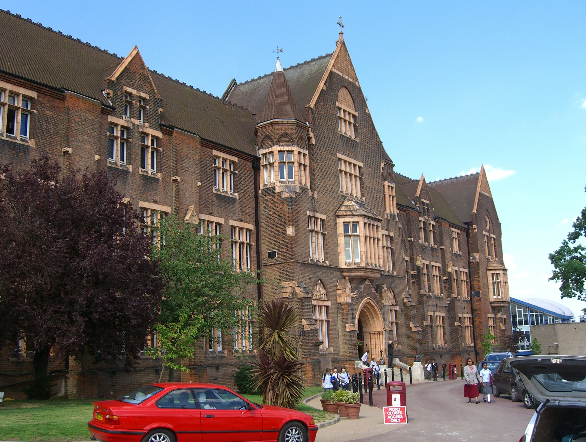 The main building of St Dunstan's College in London, UK.